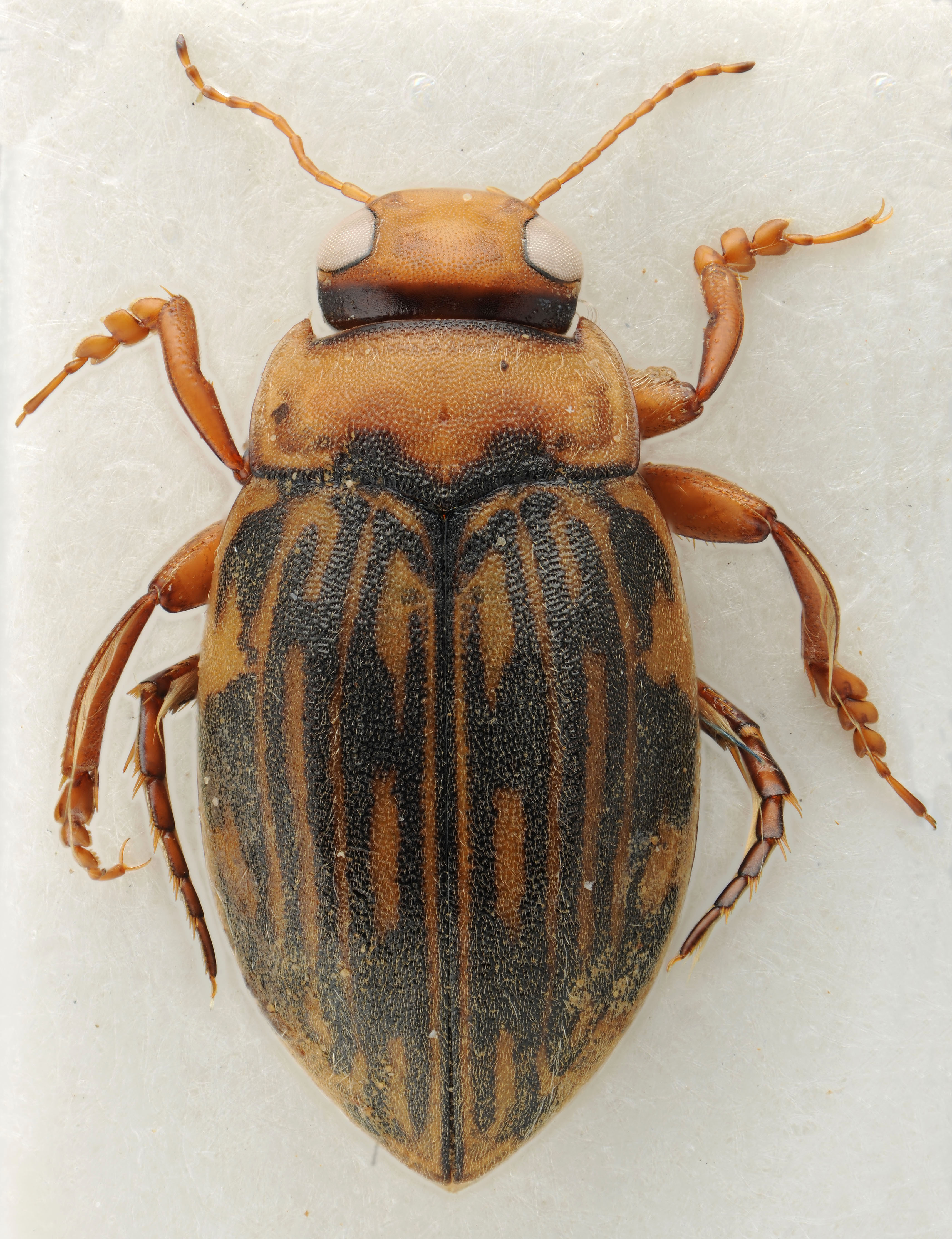 Dorsal Habitus of Necterosoma penicillatum